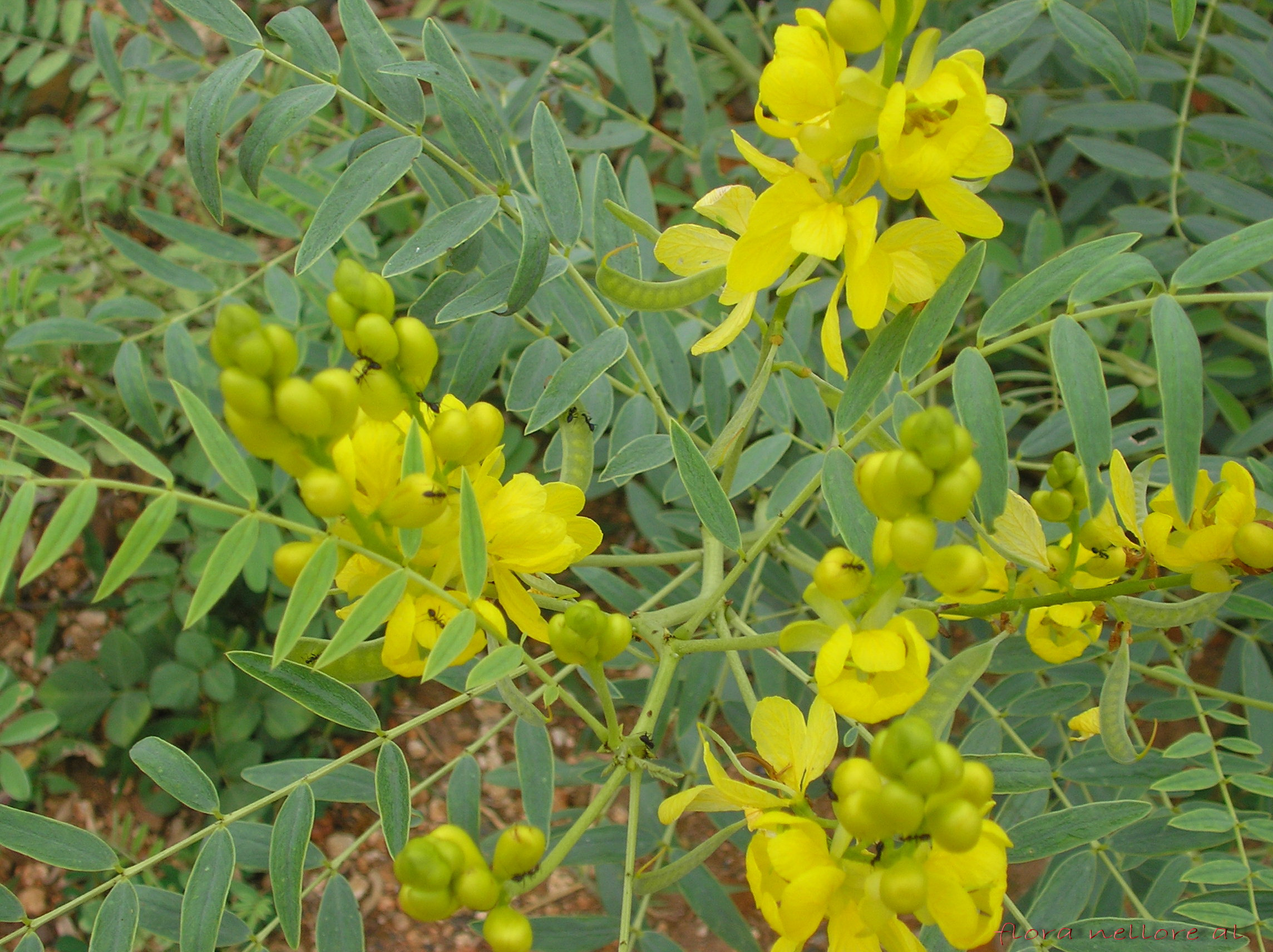 Family: Caesalpinaceae Local name: Senna; Sunamukhi (Telugu) Distribution: Found in India. Photographed at Eastren ghats of Nellore district. The dried leaves and pods are used as laxative. Because of over exploitation it is rarely found in wild. 30-50cm long herbs. Leaves unipinnately compound. Flowers in axilary racemes. Pod a compressed legume. Reference: Flora of presidency of Madras by J.S Gamble, ENVIS, Flora of Nellore district By B.Suryanarayana &A.S Rao